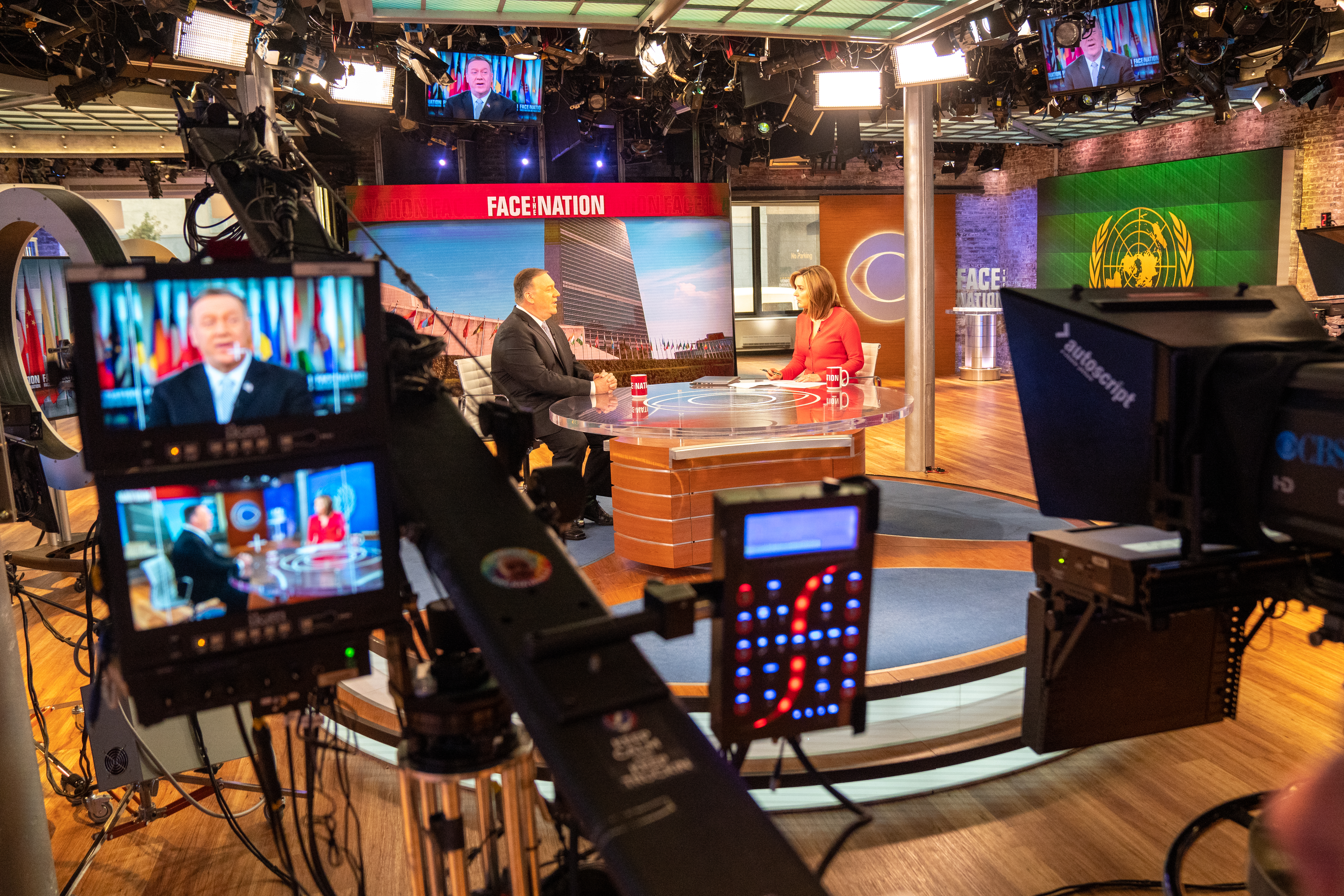 U.S. Secretary of State Michael R. Pompeo participates in an interview with Margaret Brennan of CBS's "Face the Nation" in New York, New York, September 22, 2019. [State Department photo by Ron Przysucha/ Public Domain]